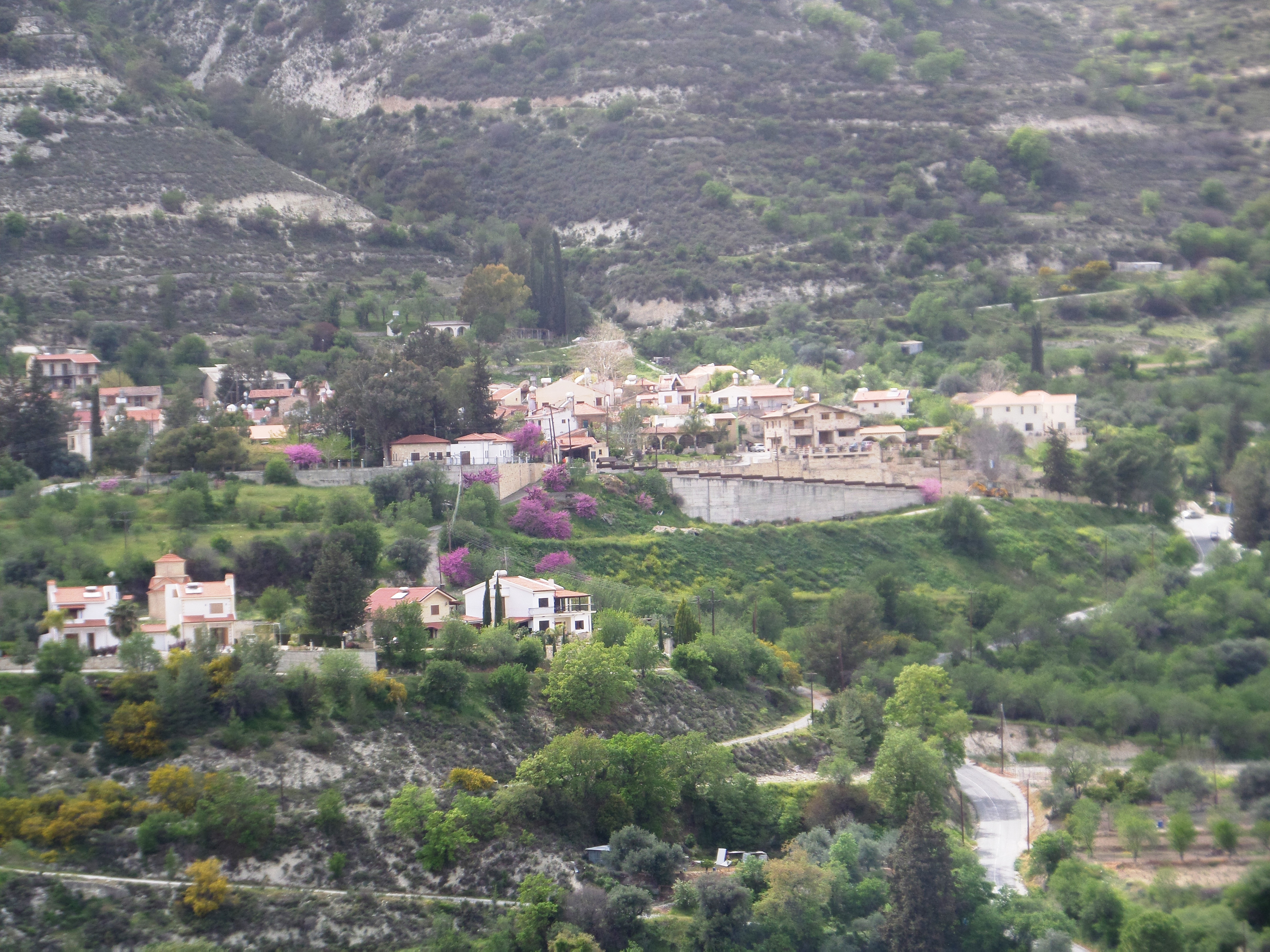 View of Agios Georgios, Limassol.